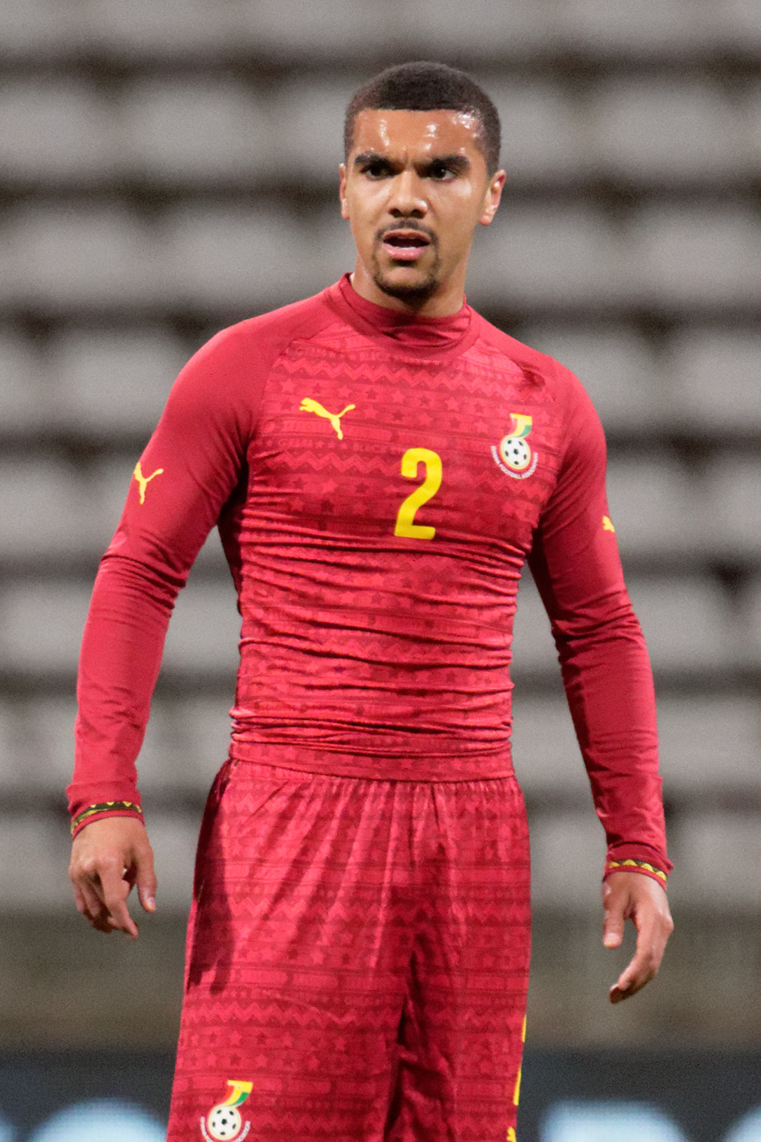 Mali vs Ghana, exhibition game at Paris, 31st March 2015.